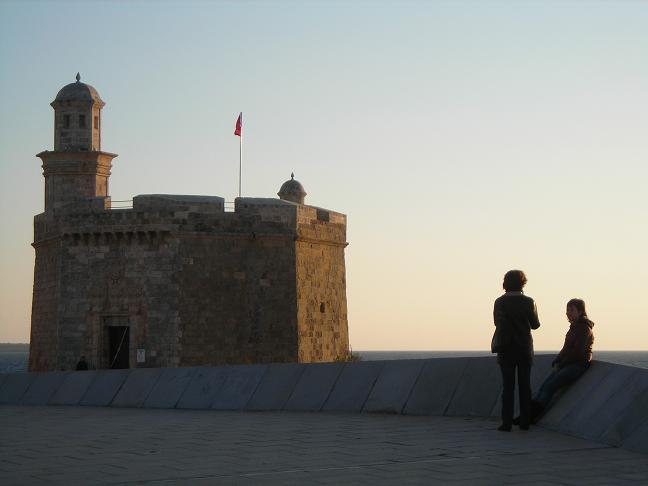 Sant Nicolau castle, in Ciutadella (Menorca, Spain)